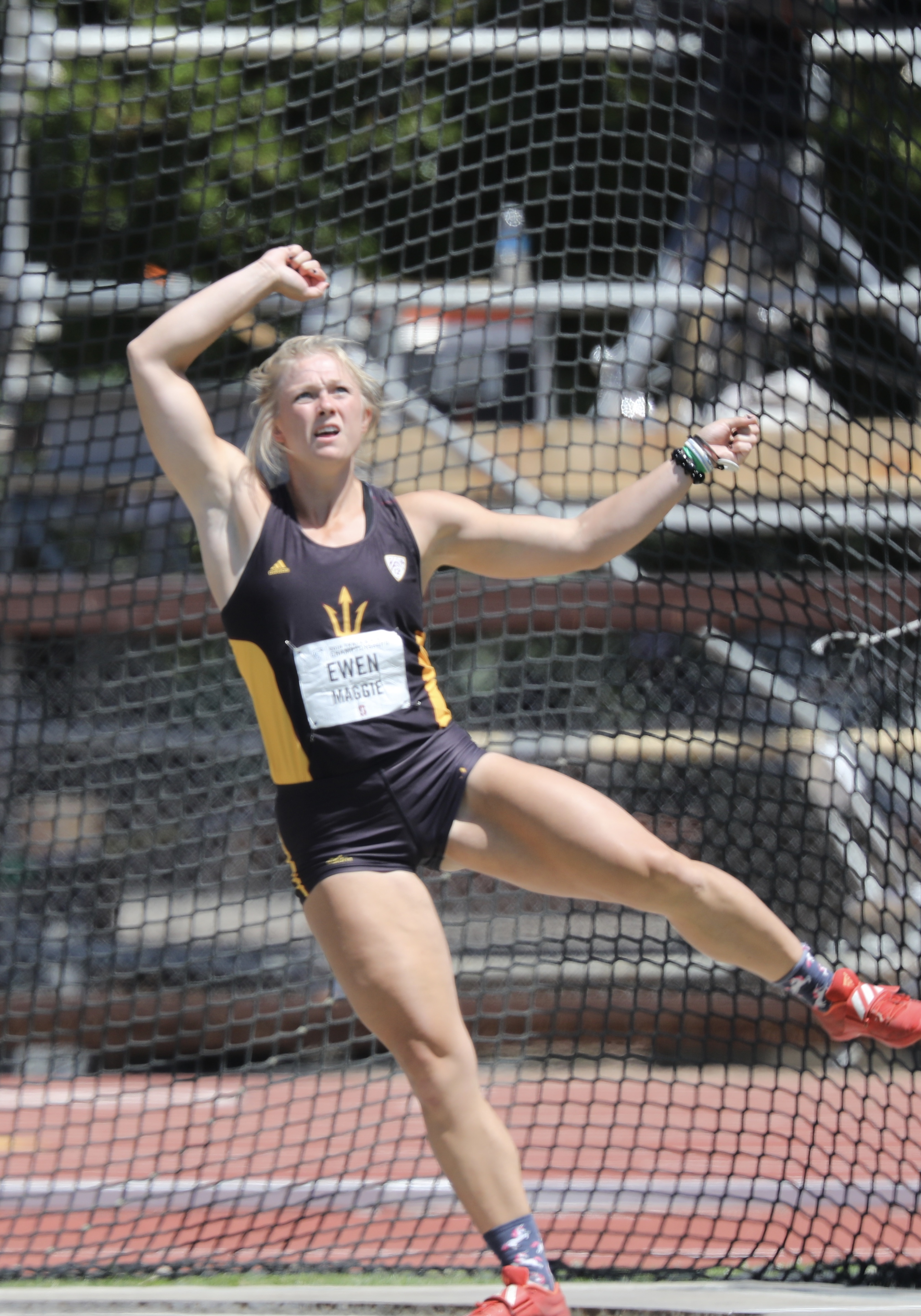 Magdalyn Ewen (born September 23, 1994) is an American hammer thrower